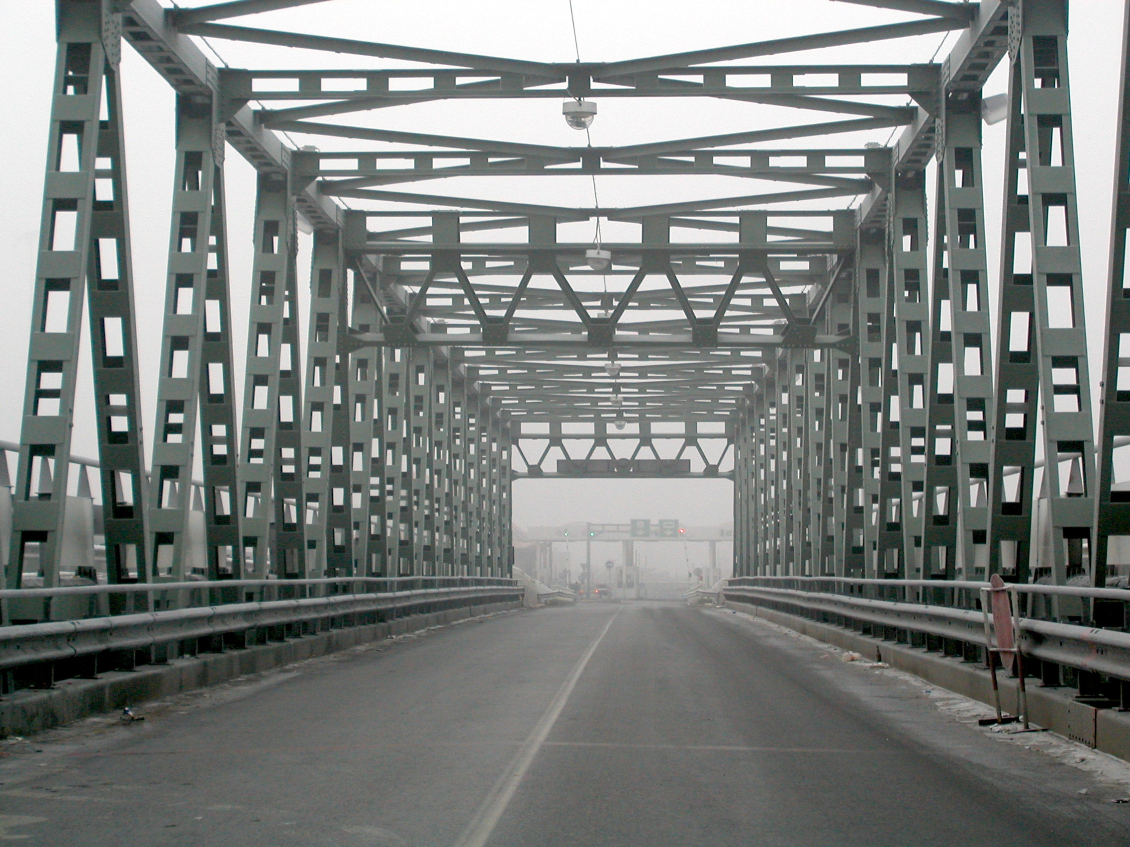 The Tysa bridge at the Chop-Záhony checkpoint on the Hungarian-Ukrainian border (a view from the Ukrainian side)